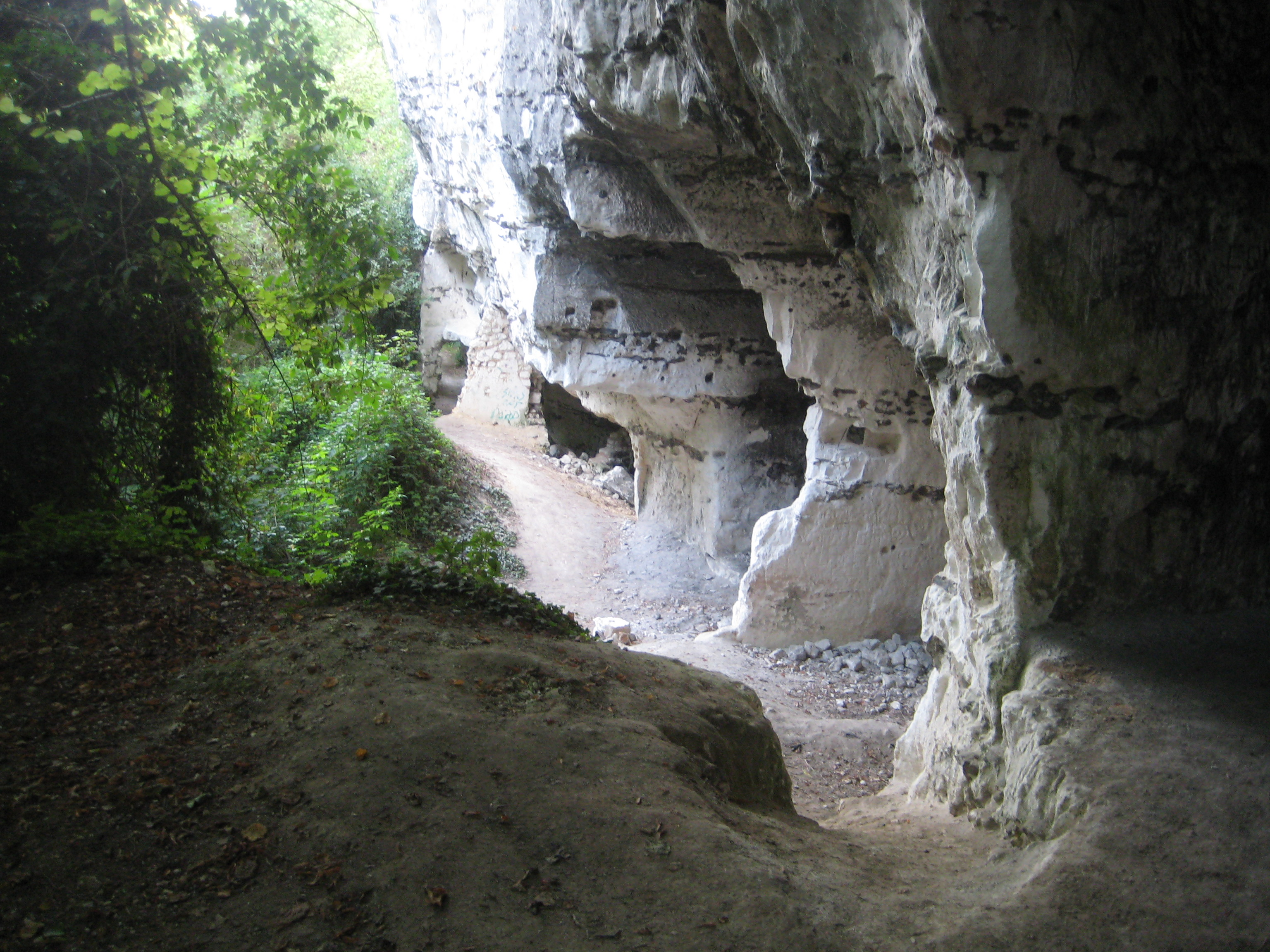 troglodytes houses at "la roche Foulon", Orival